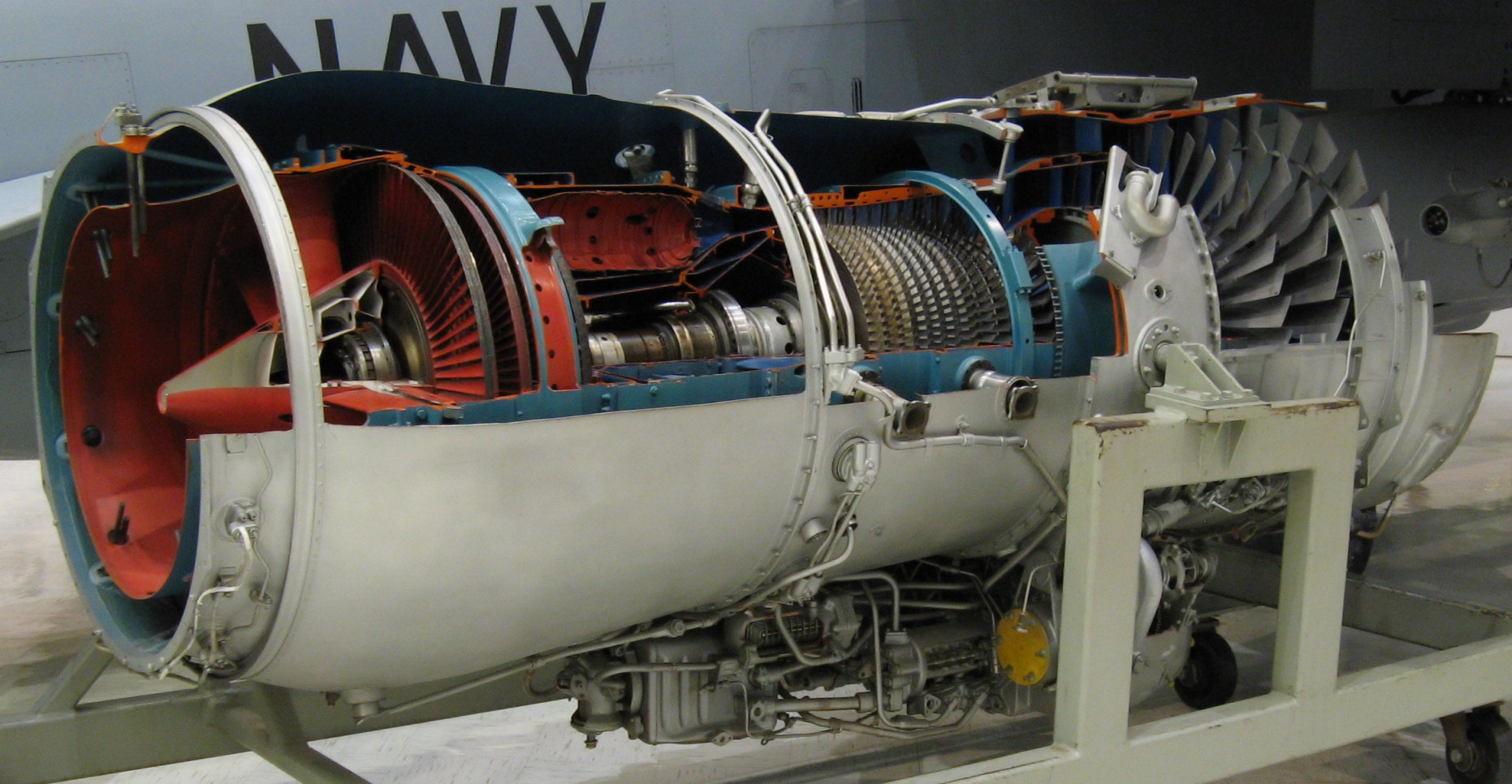 A Pratt & Whitney TF30-P-6 at the Naval Aviation Museum in Pensacola, Florida